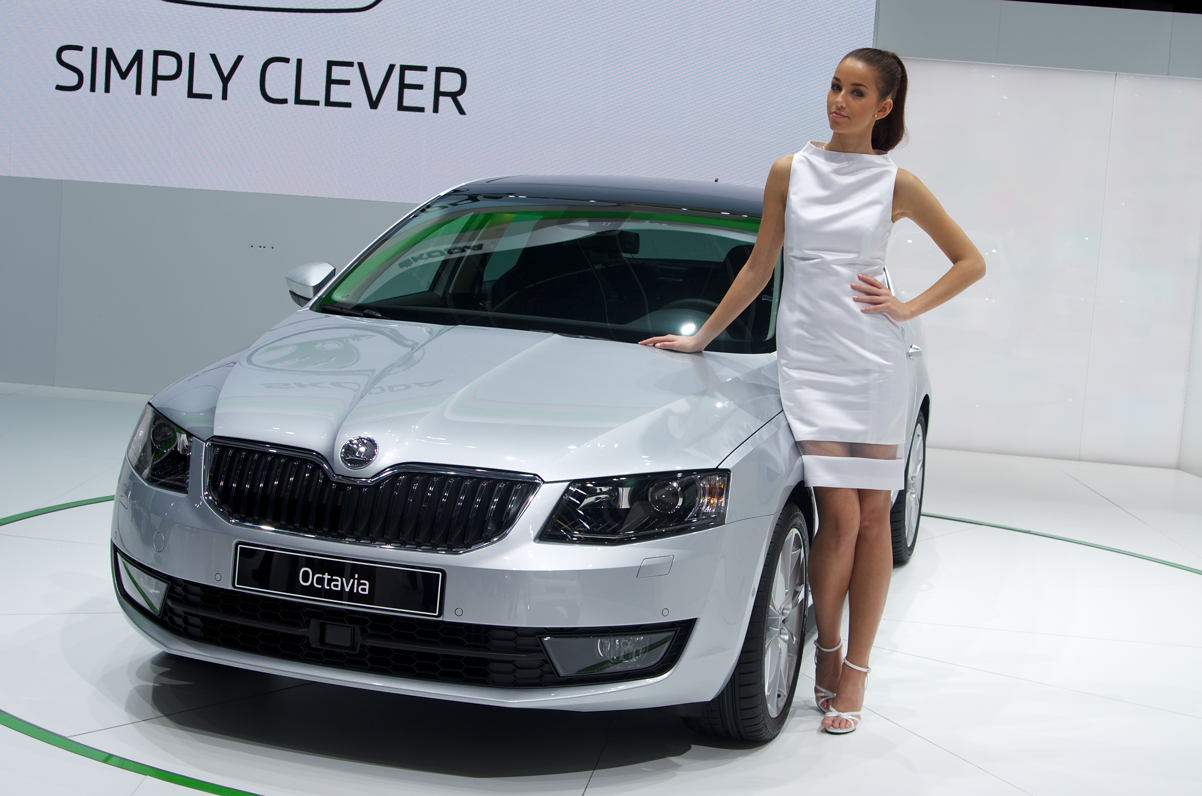 Geneva MotorShow 2013 - Skoda Octavia